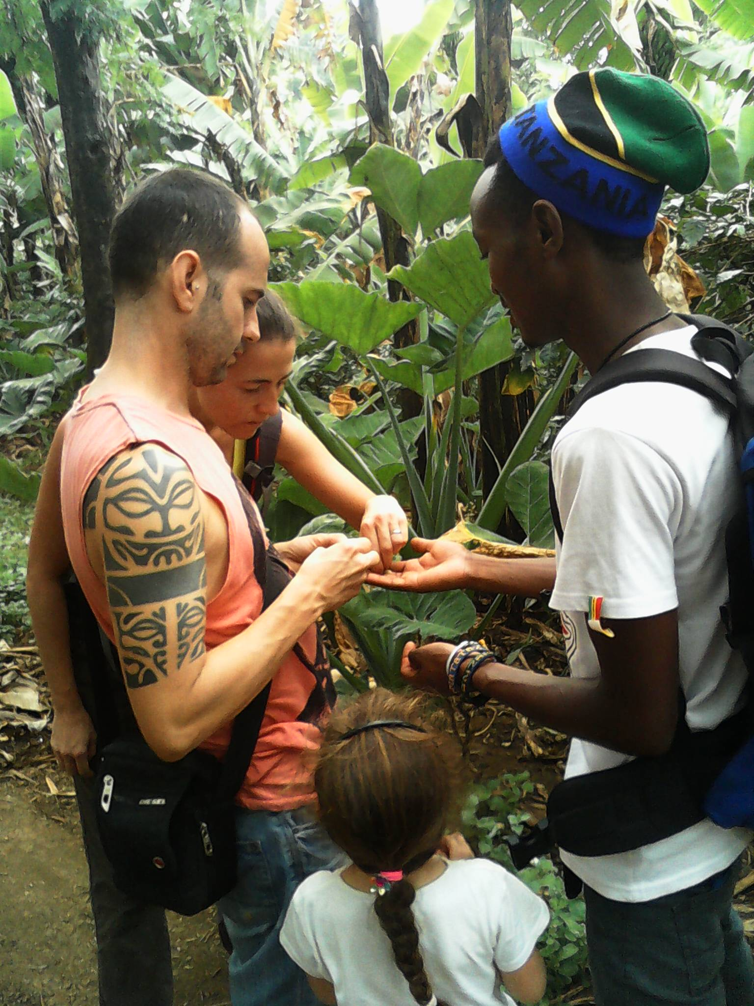 This is an image of food from Tanzania